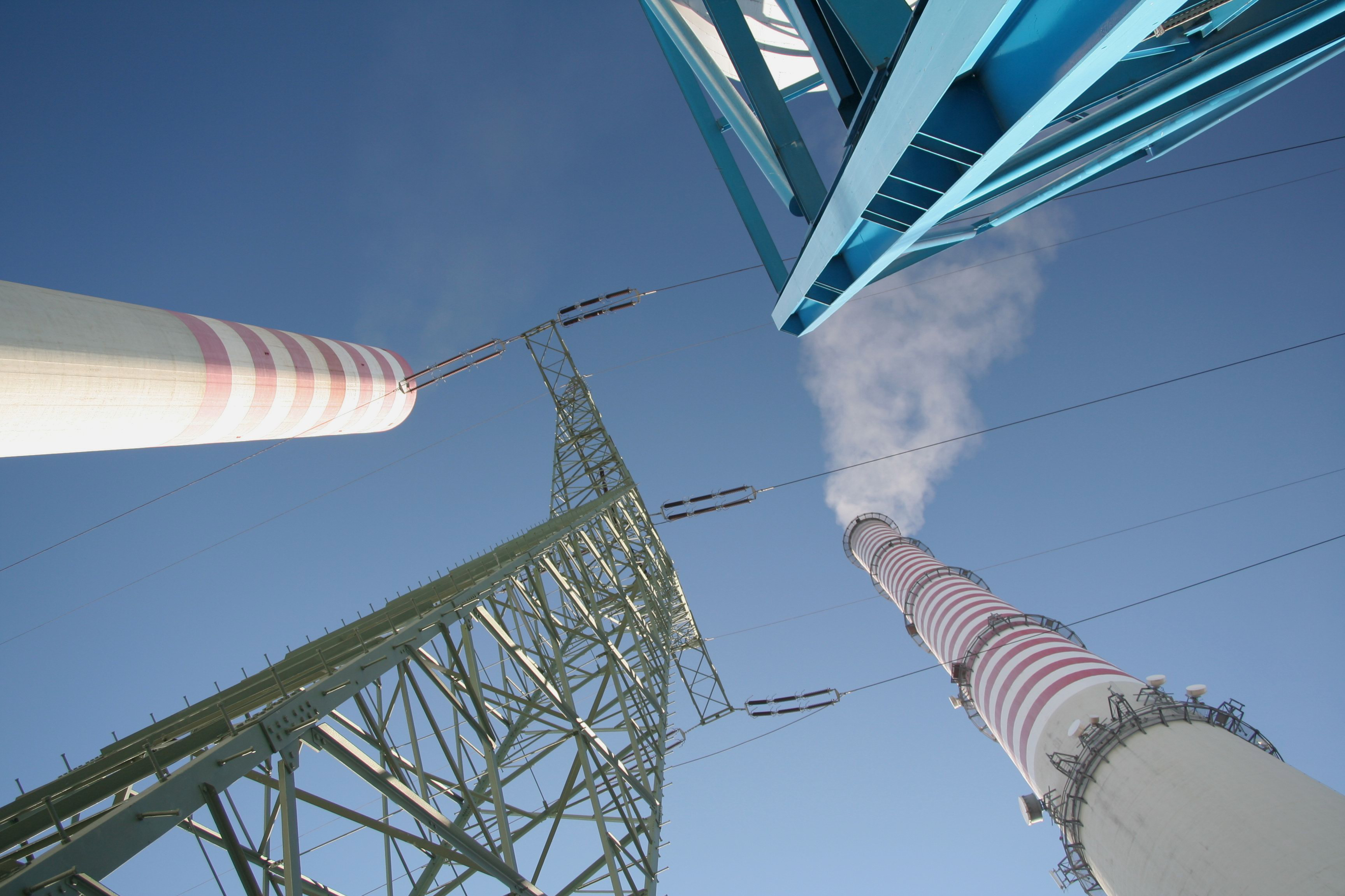 Dolna Odra Power Plant, Poland